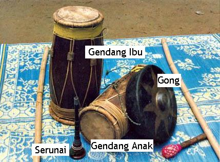 Gendangbaku